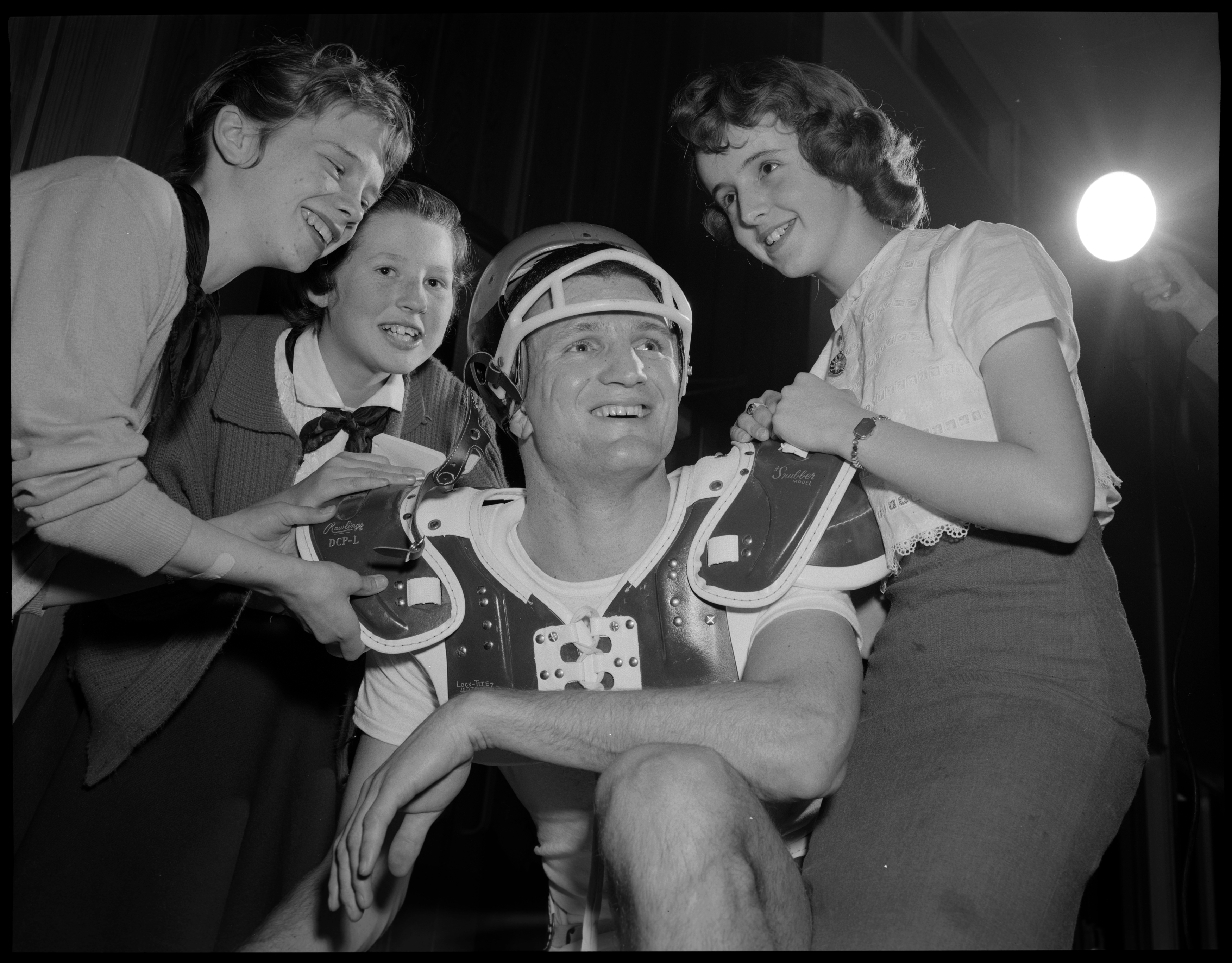 BC Lions Bruce Claridge VPL Accession Number: 43941 Date: November 1959 Photographer/Studio: Province Newspaper Topic: Football Football players Sports Person: Claridge, Bruce Location: British Columbia - Vancouver More information on our historical photograph collection